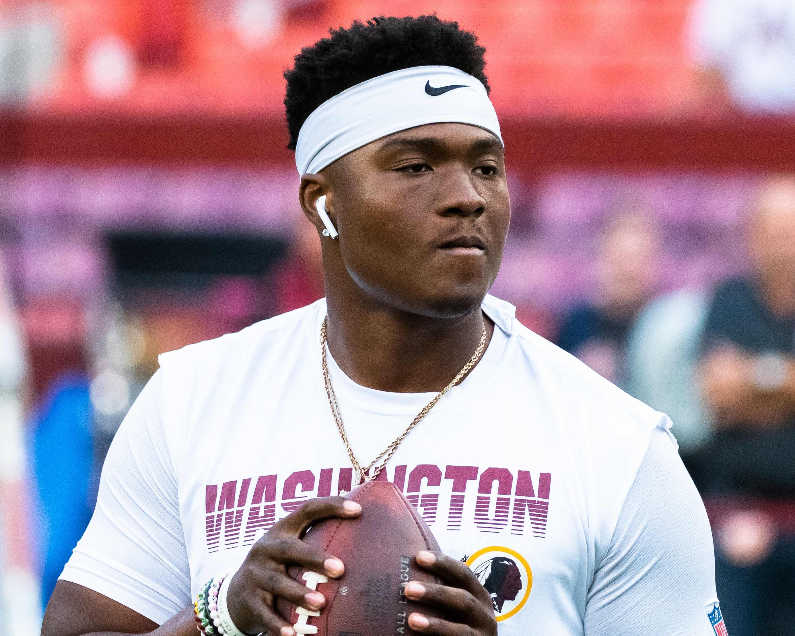 Dwayne Haskins in 2019